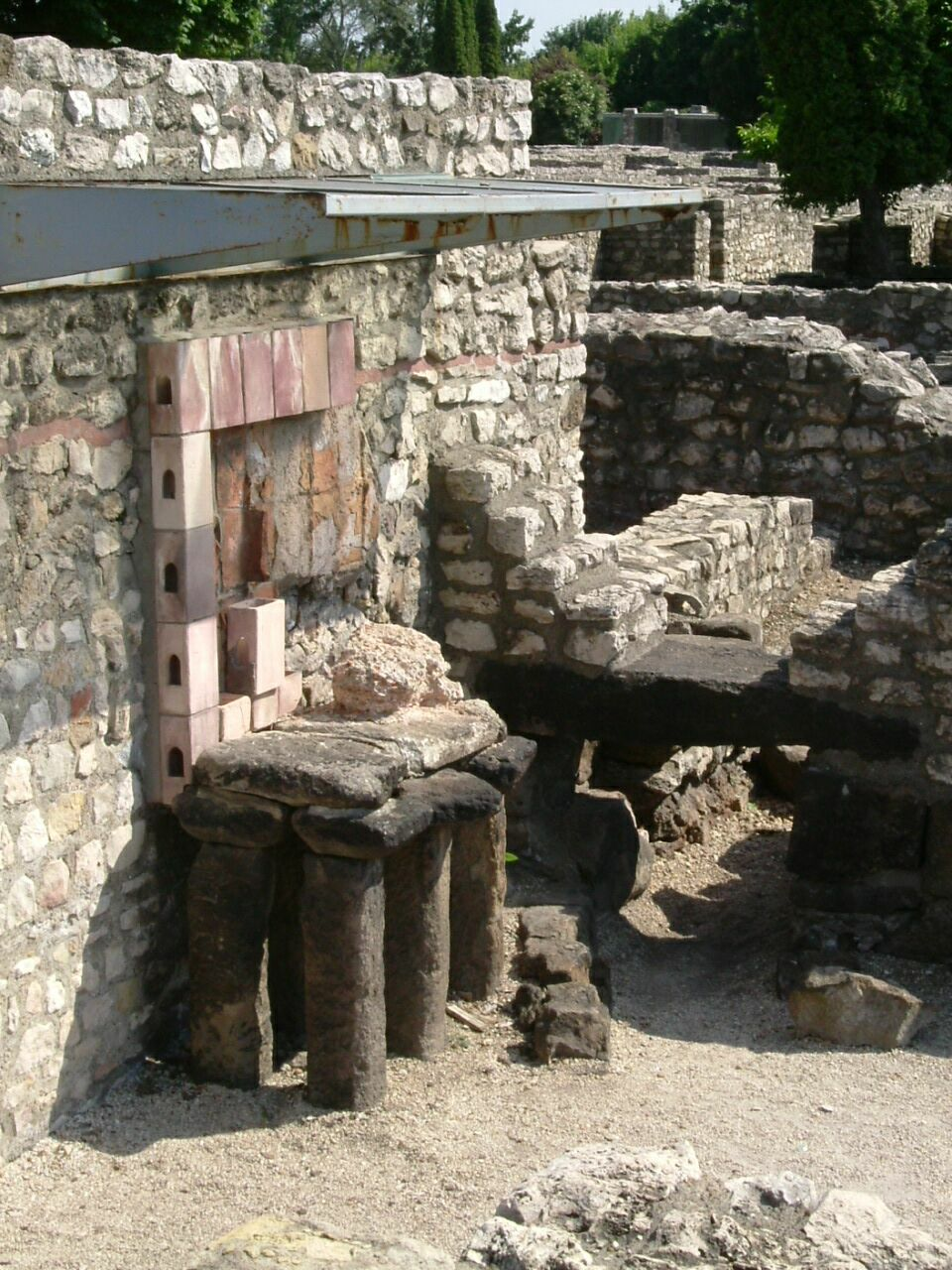 Aquincum, Budapest, Hungary. Ruins of a bath. Details of floor heating